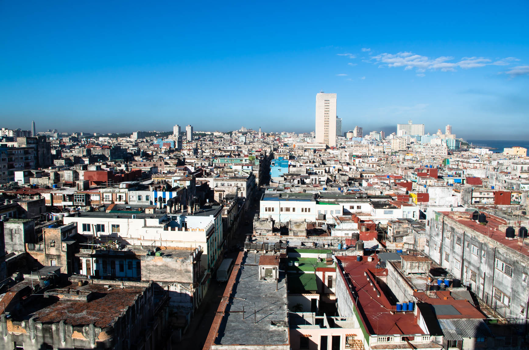 Havana town center, neighbourhoods "centro habana" and "vedado".